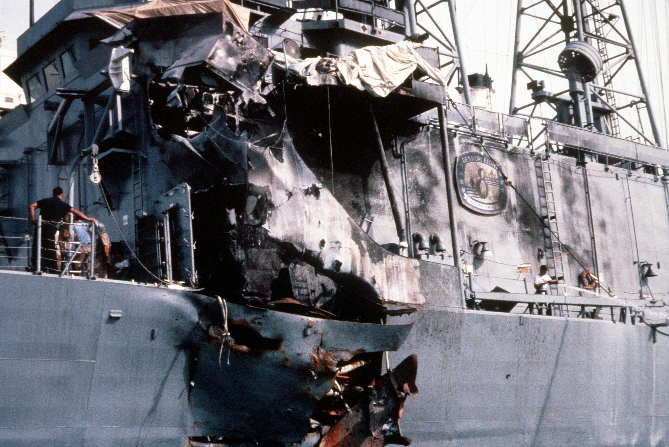 A view of damage sustained by the guided missile frigate USS STARK (FFG-31) when it was hit by two Iraqi-launched Exocet missile while on patrol in the Persian Gulf.